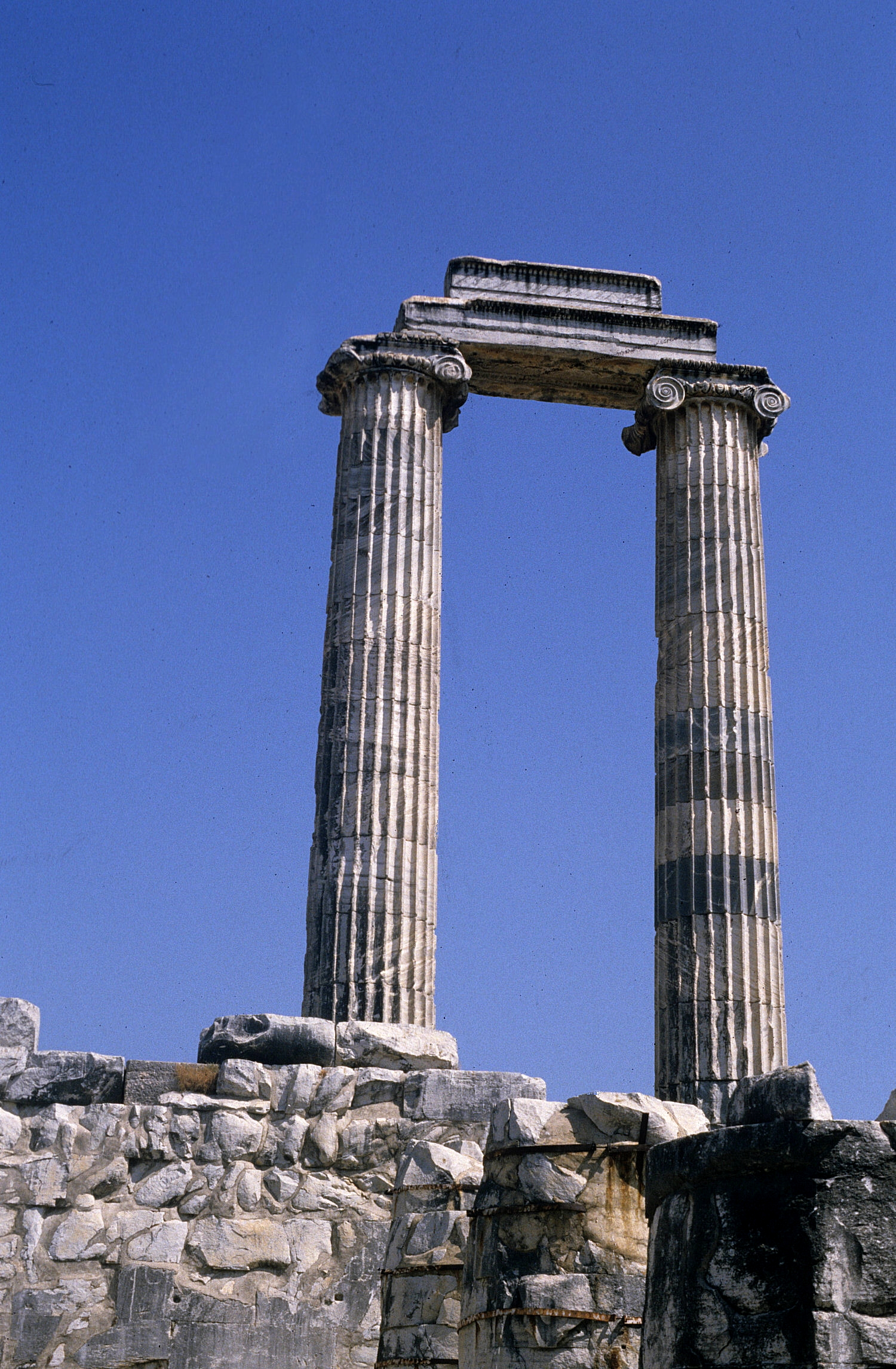 Apollon Temple of Didyma